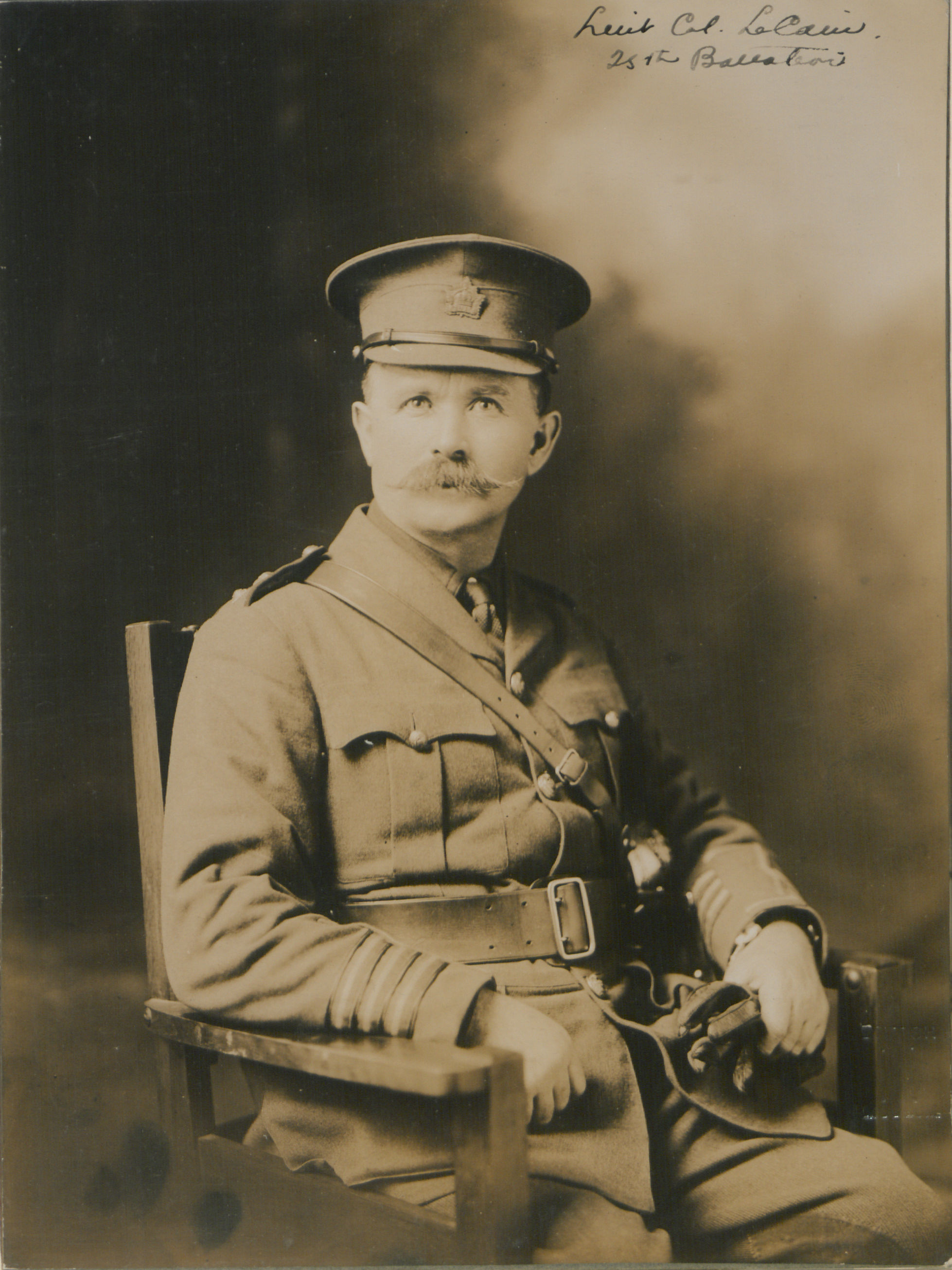 Original caption: “Lt. Col. Le Cain and Major McKenzie, Adj., 25th Battalion.”